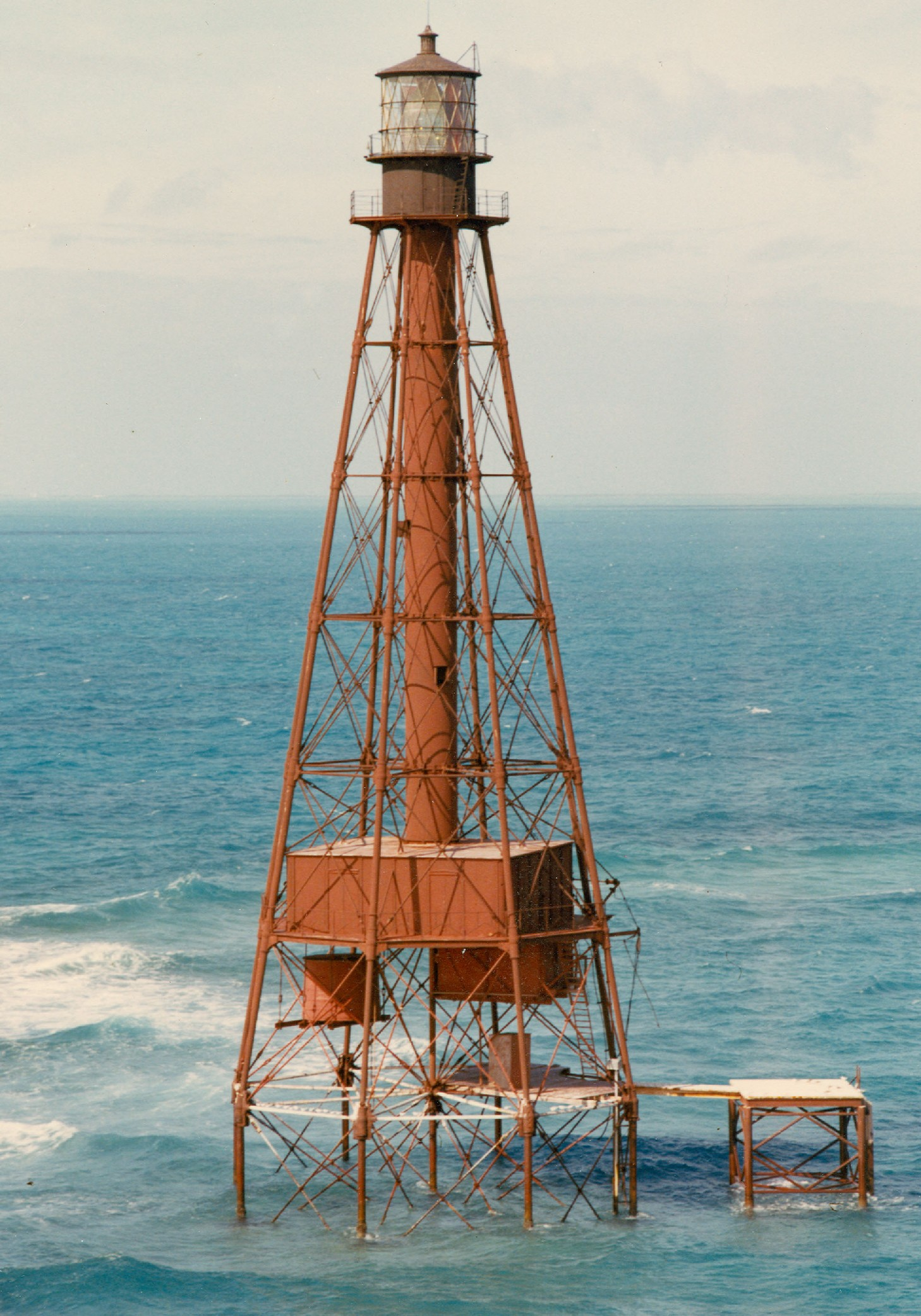 U.S. Coast Guard Archive Photo of Sombrero Key Light, Marathon, Florida (color, 300 dpi)